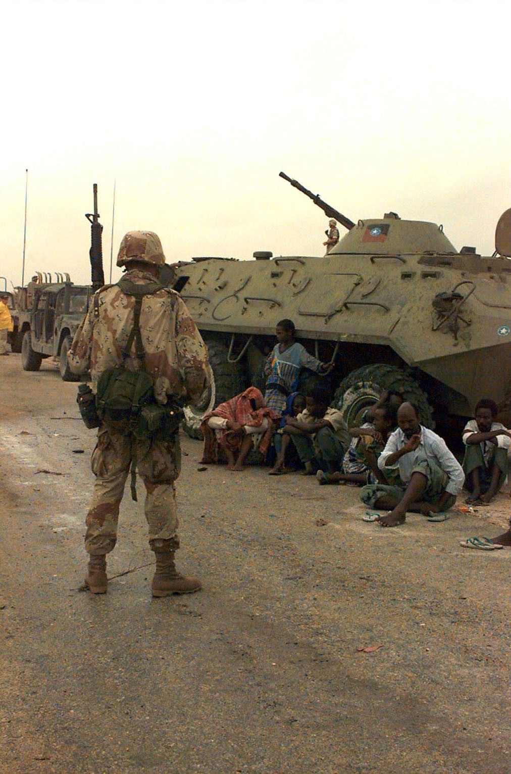 A US Marine, holding the M16A2 rifle, guards seven Somali nationals sitting on the ground next to a Somali BTR-60PB. Somalis were detained from an early morning raid on Somali Warlord General Aideed's weapons cantonment. This mission is in direct support of Operation Restore Hope.